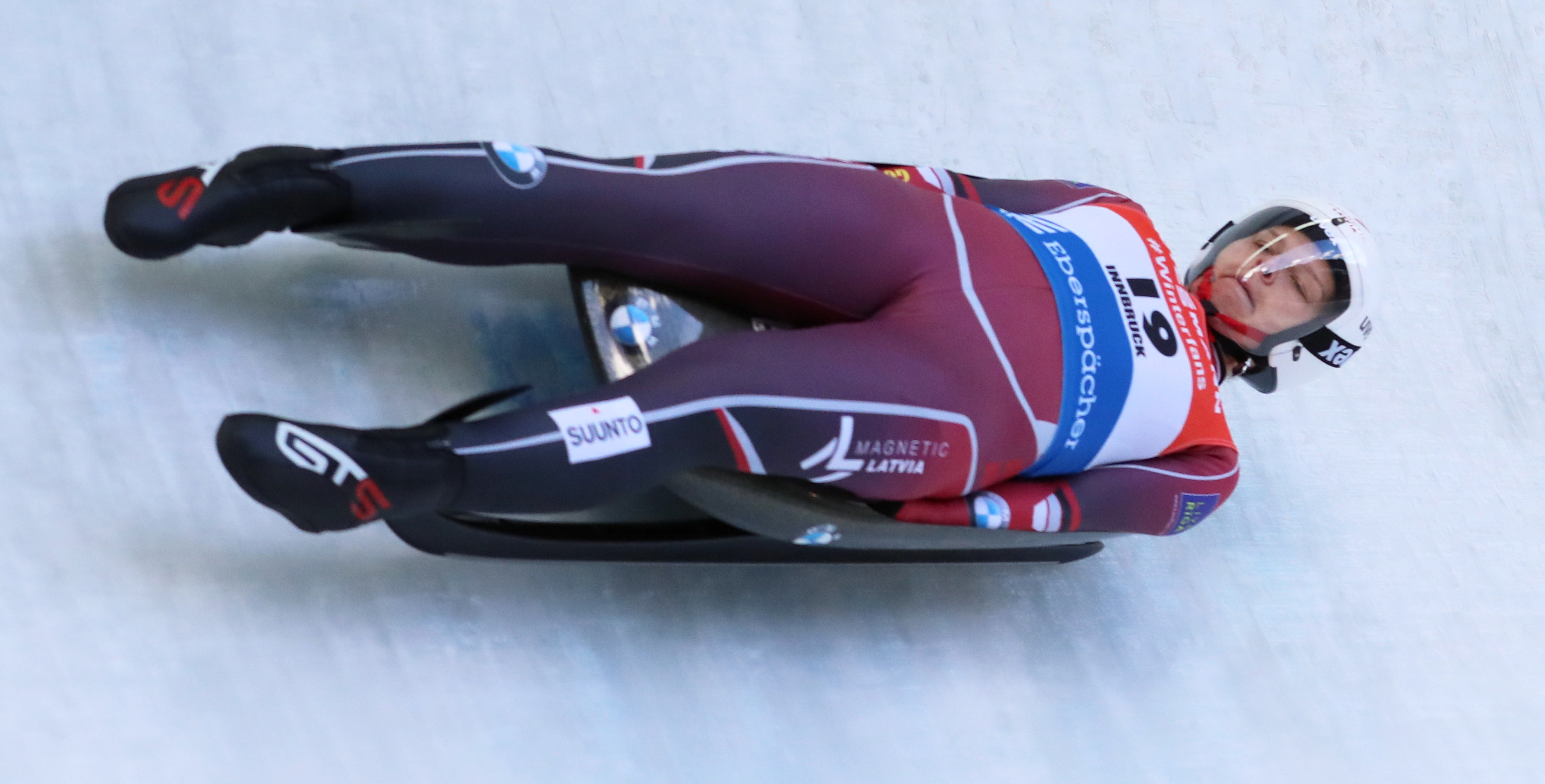 Women's World Cup race at the 2018/19 Luge World Cup in Innsbruck-Igls